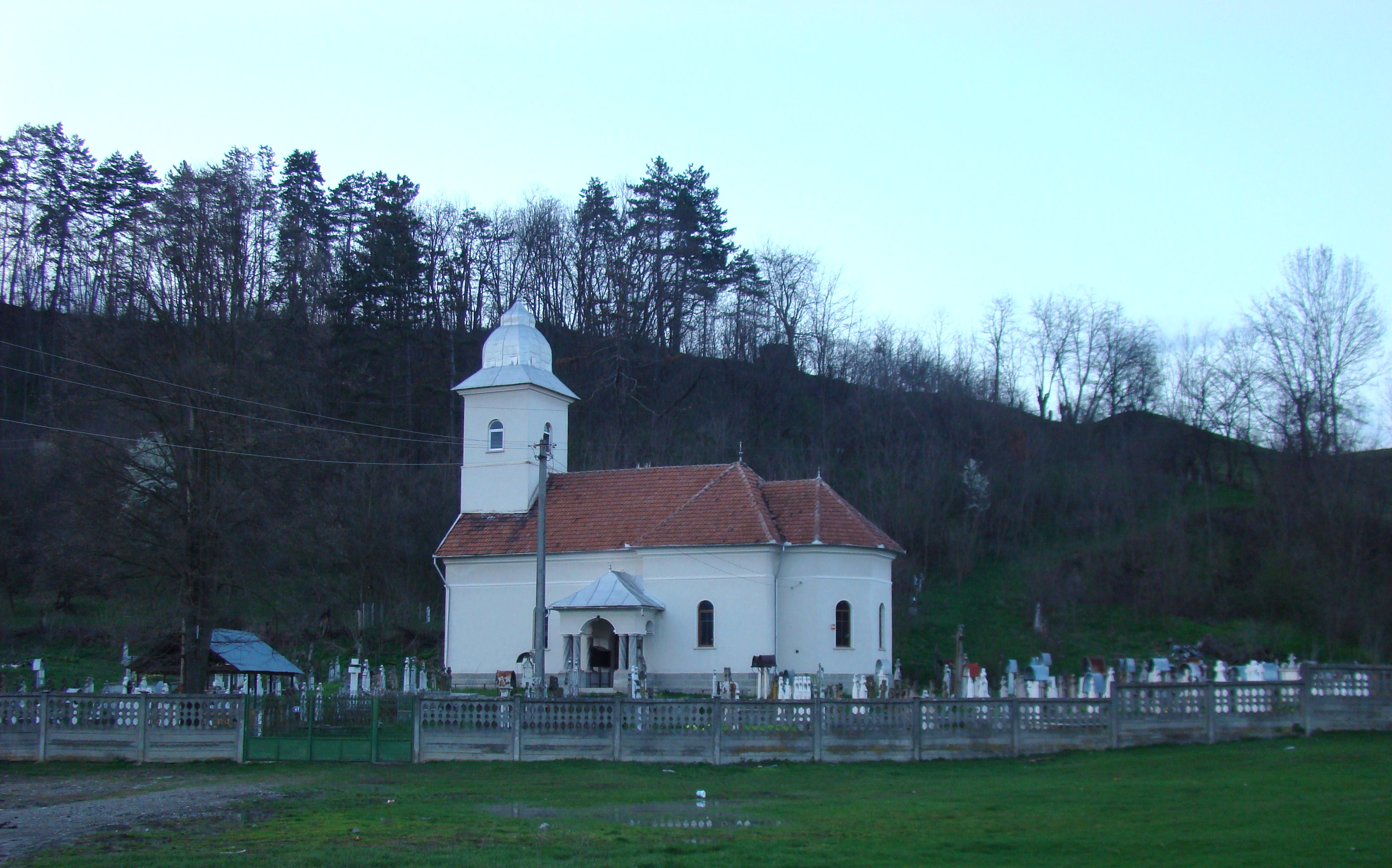 Rișca, Hunedoara county, Romania